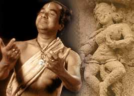 Guruji in Odissi pose